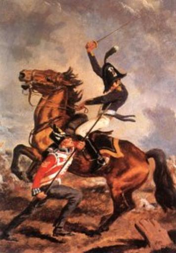 Sgt. A Fraser of the Scots Fusilier Guards dehorsing Col. Cuieres during the Battle of Waterloo, Hougomont Farm.